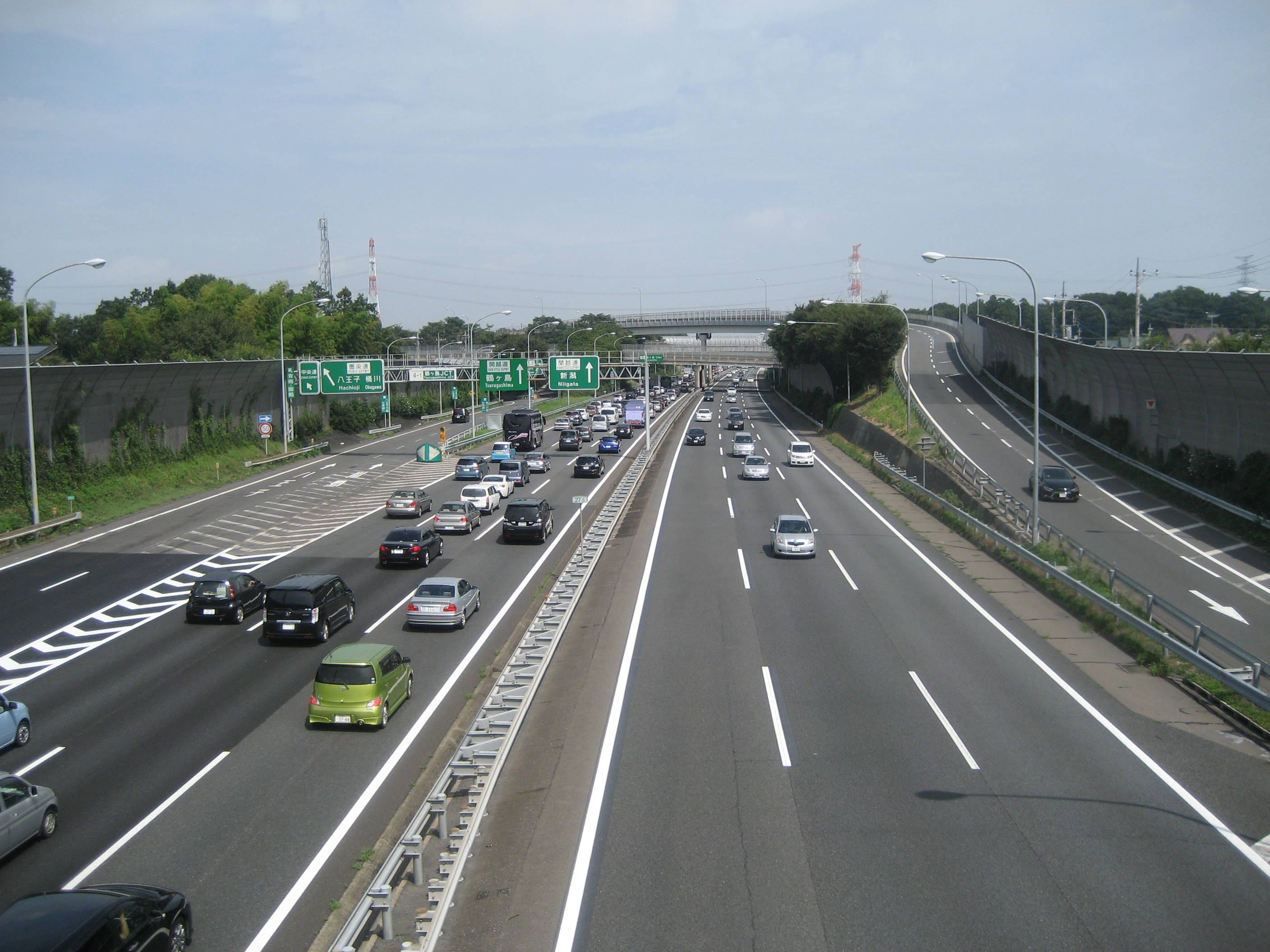 Tsurugashima Junction on the Kan-etsu Expressway northbound line